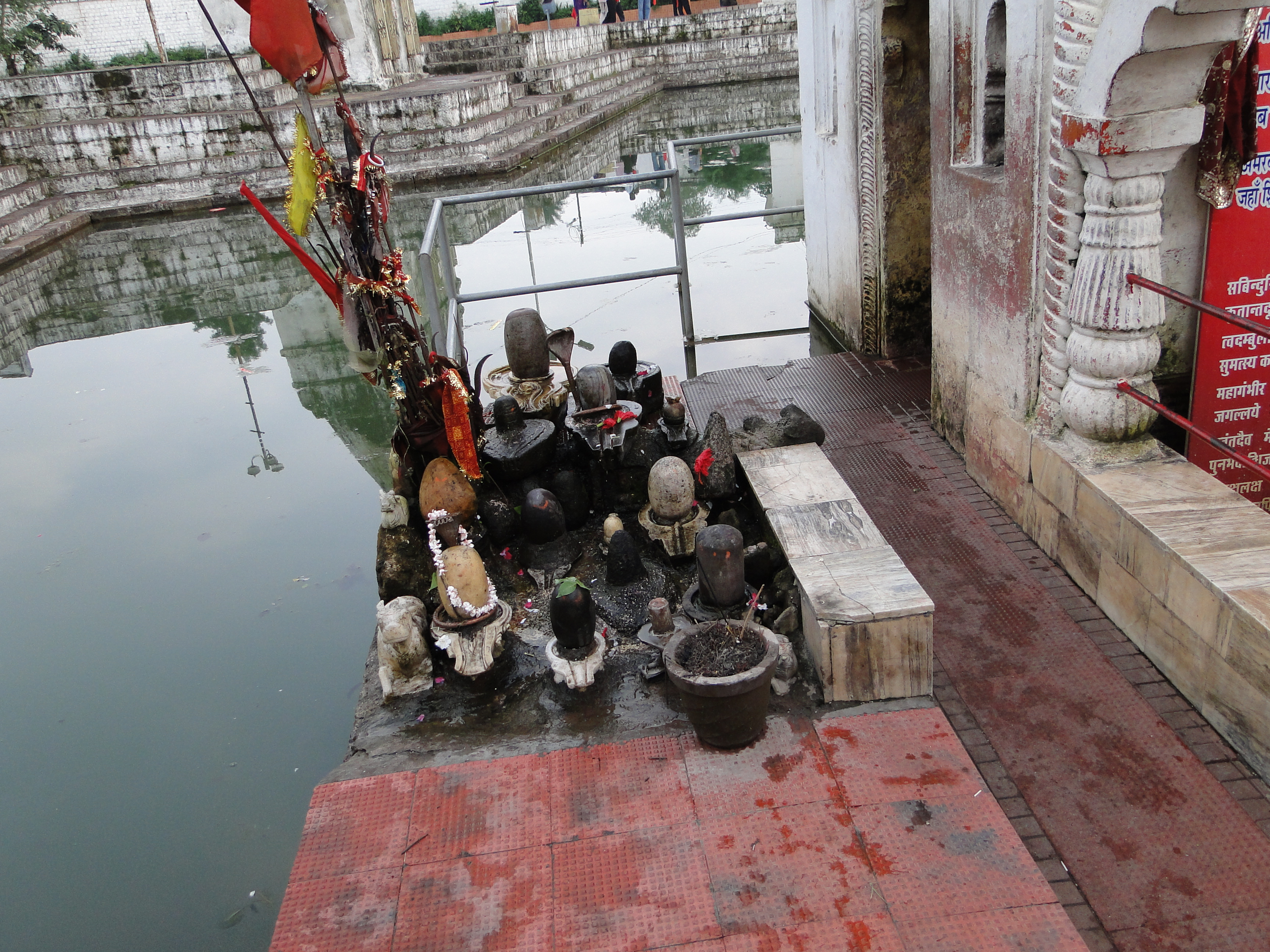 Narmada Kund, Amarkantak is place of origin of Indian River Narmada. The picture was taken during Ethnobotanical surveys in Amarkantak Biodiversity Zone, August 2012.